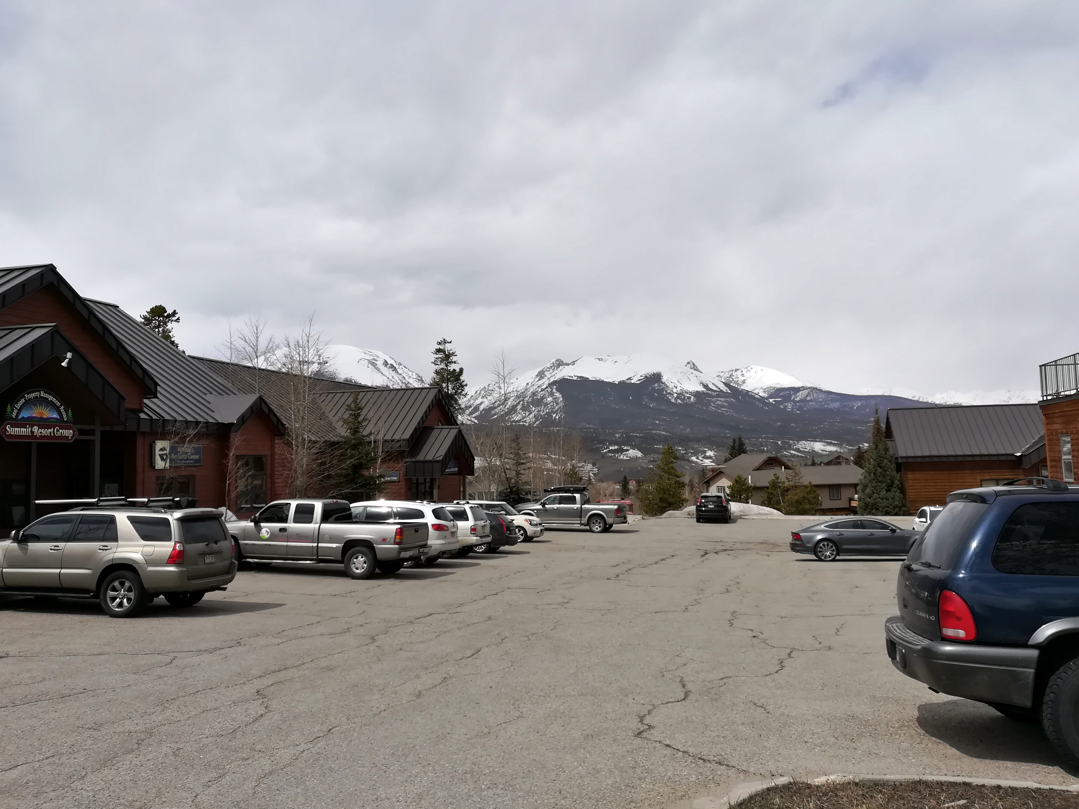 Dillon